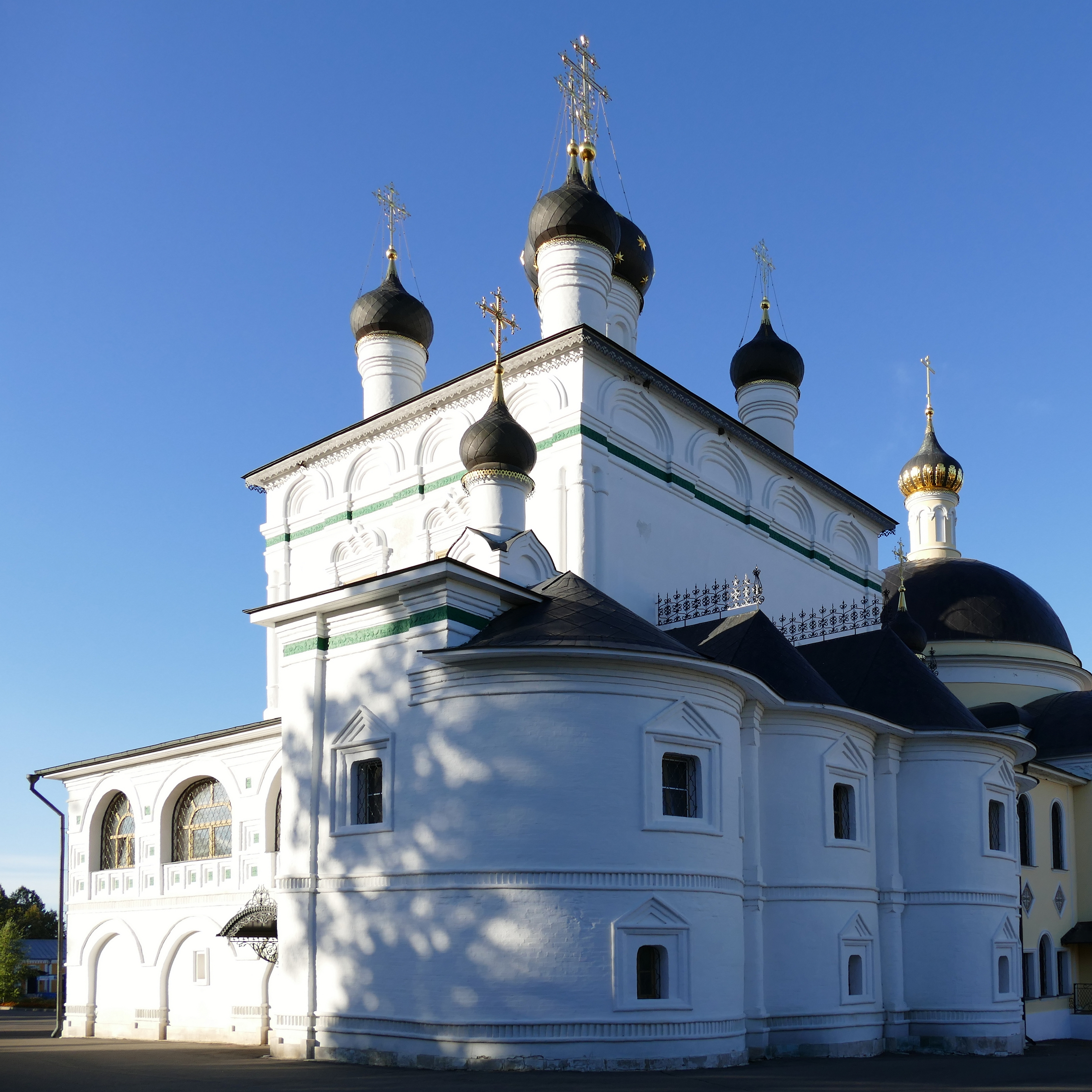 Voznesenskaya Davidova Pustyn. Cathedral Of The Ascension. Moscow region, Russia.